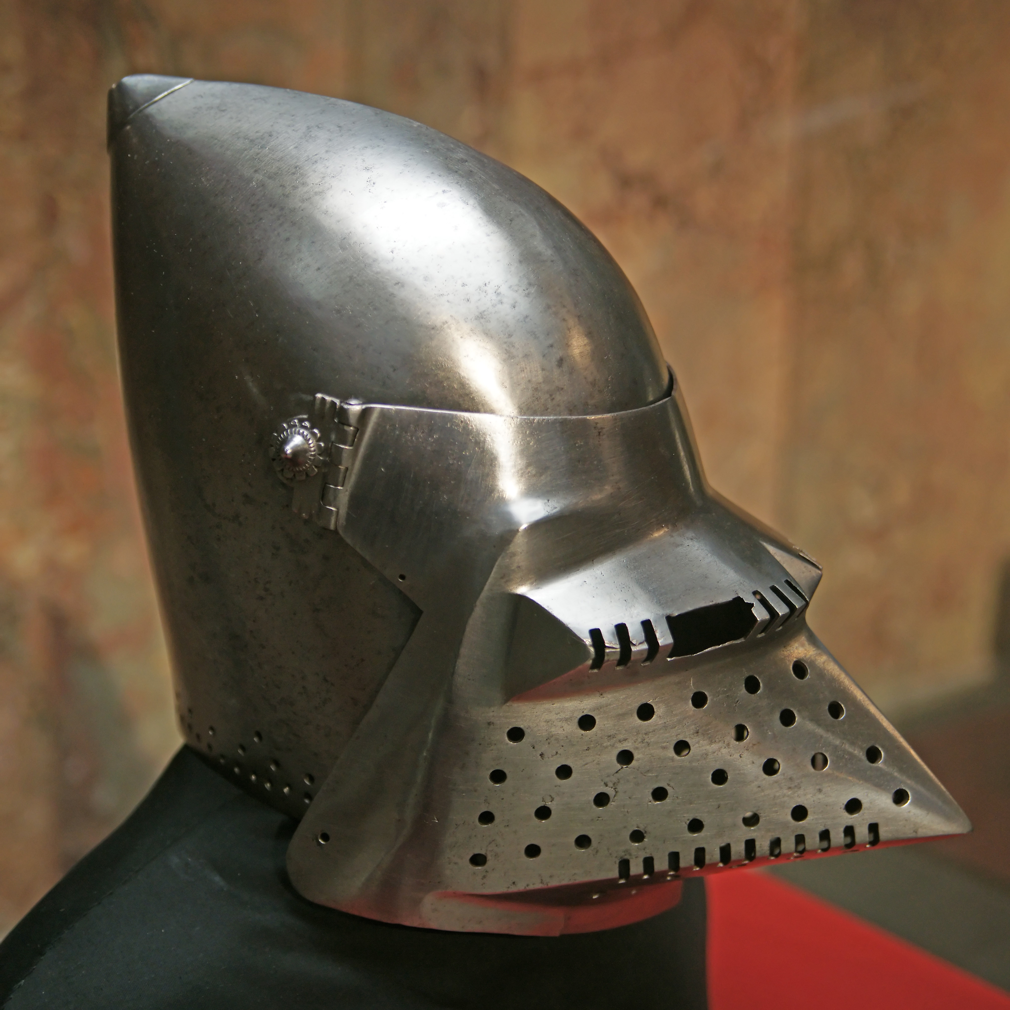 Hounskull